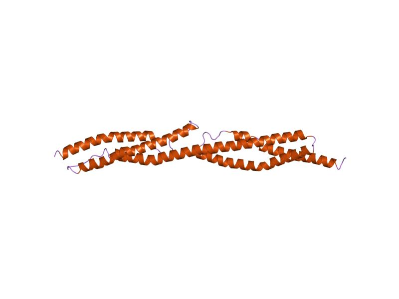 Cartoon representation of the molecular structure of protein registered with 1quu code.